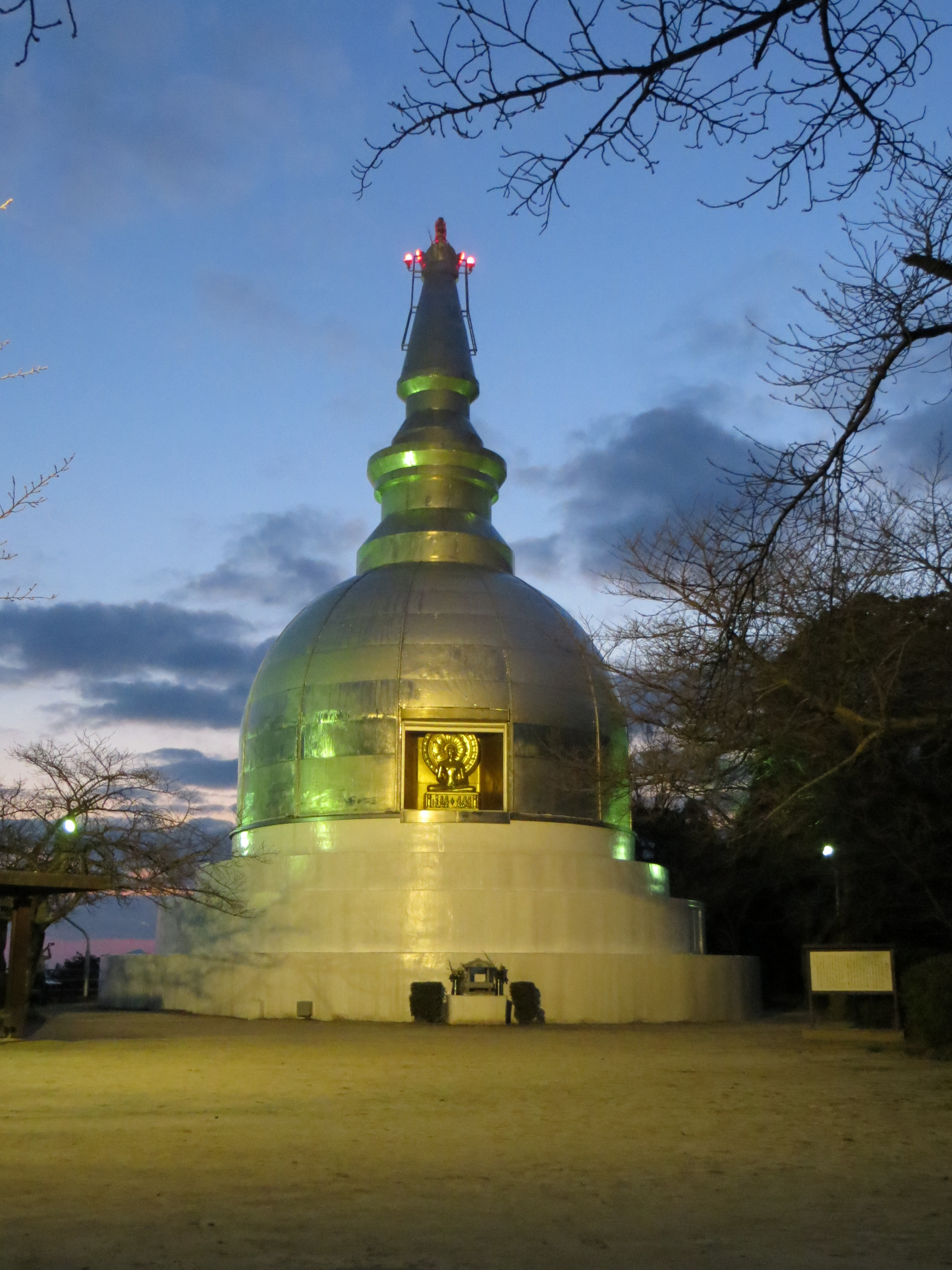 Peace Pagoda, Hiroshima, Japan, February 9th, 2013 at Dusk. Photograph taken by Nachiuz.